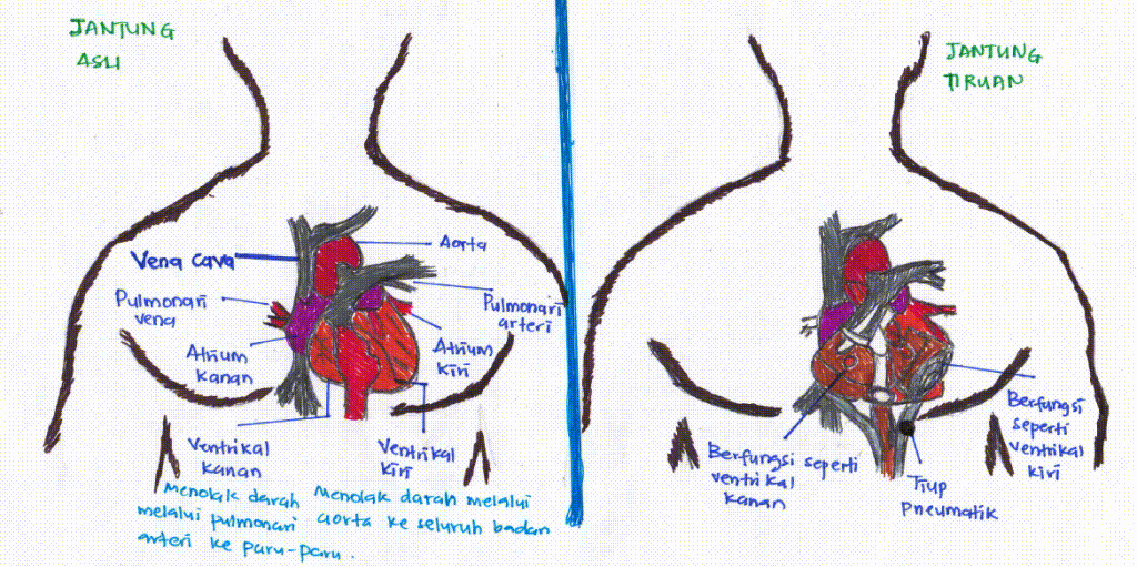 jantung